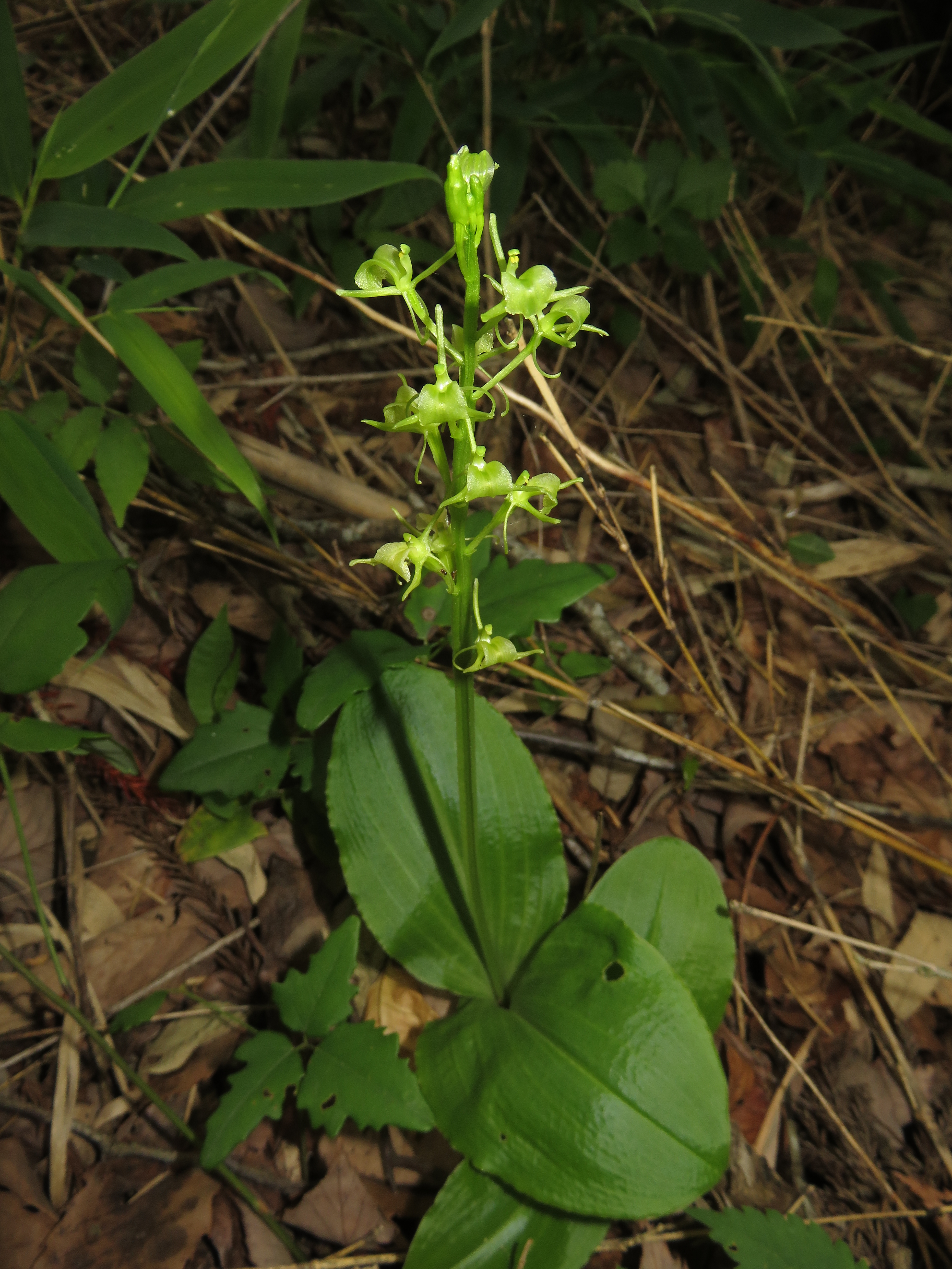 Liparis kumokiri, Hama-dori area, Fukushima pref., Japan